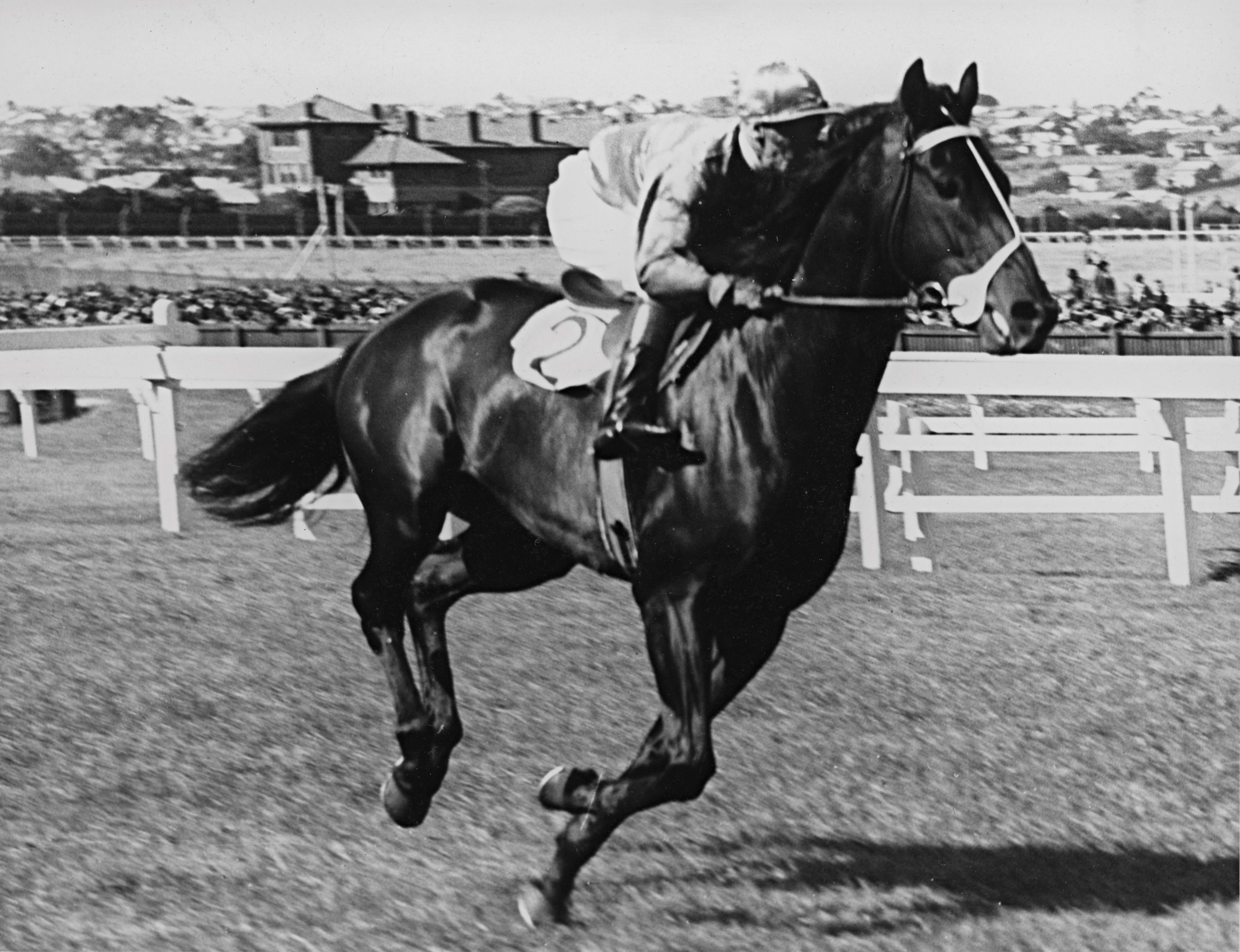 Beau Vite 1940 W.S.Cox Plate Moonee Valley Racecourse